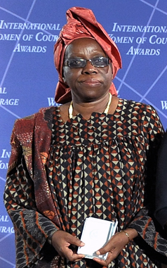 2011 International Women of Courage awards